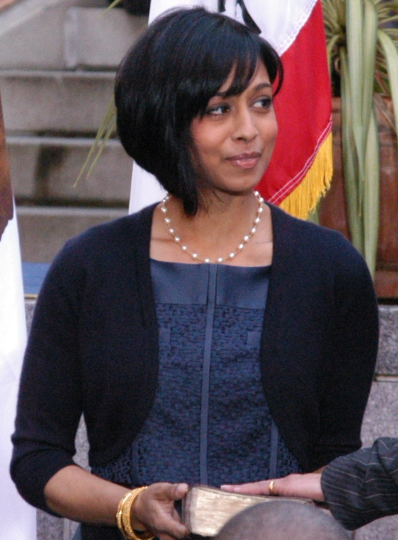 Maya Harris holds Bible as sister Kamala Harris is sworn into her second term in office as California Attorney General.